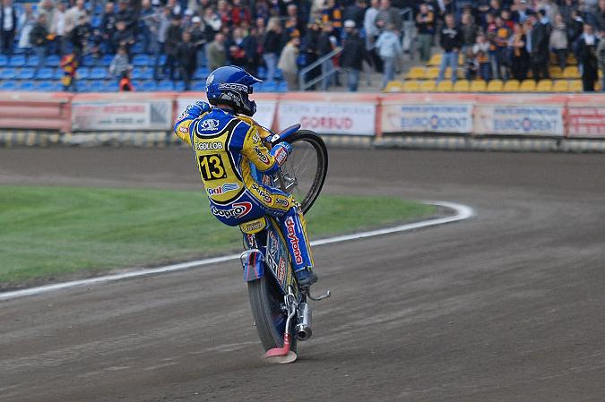 Tomasz Gollob during the exemplary ride on one wheel